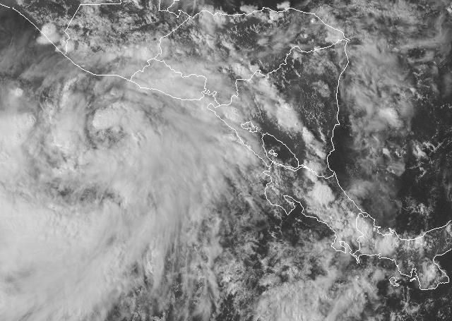 Tropical Depression Sixteen-E south of Guatemala. Photographed in visible light by GOES East Pacific Floater 4.